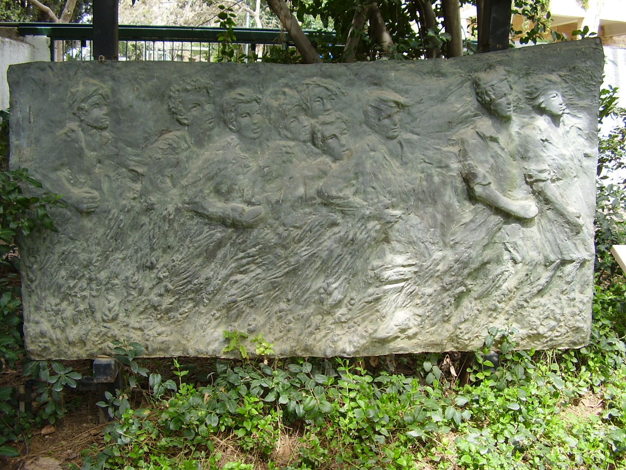 "silver plate" statue by batia lichansky, Jerusalem